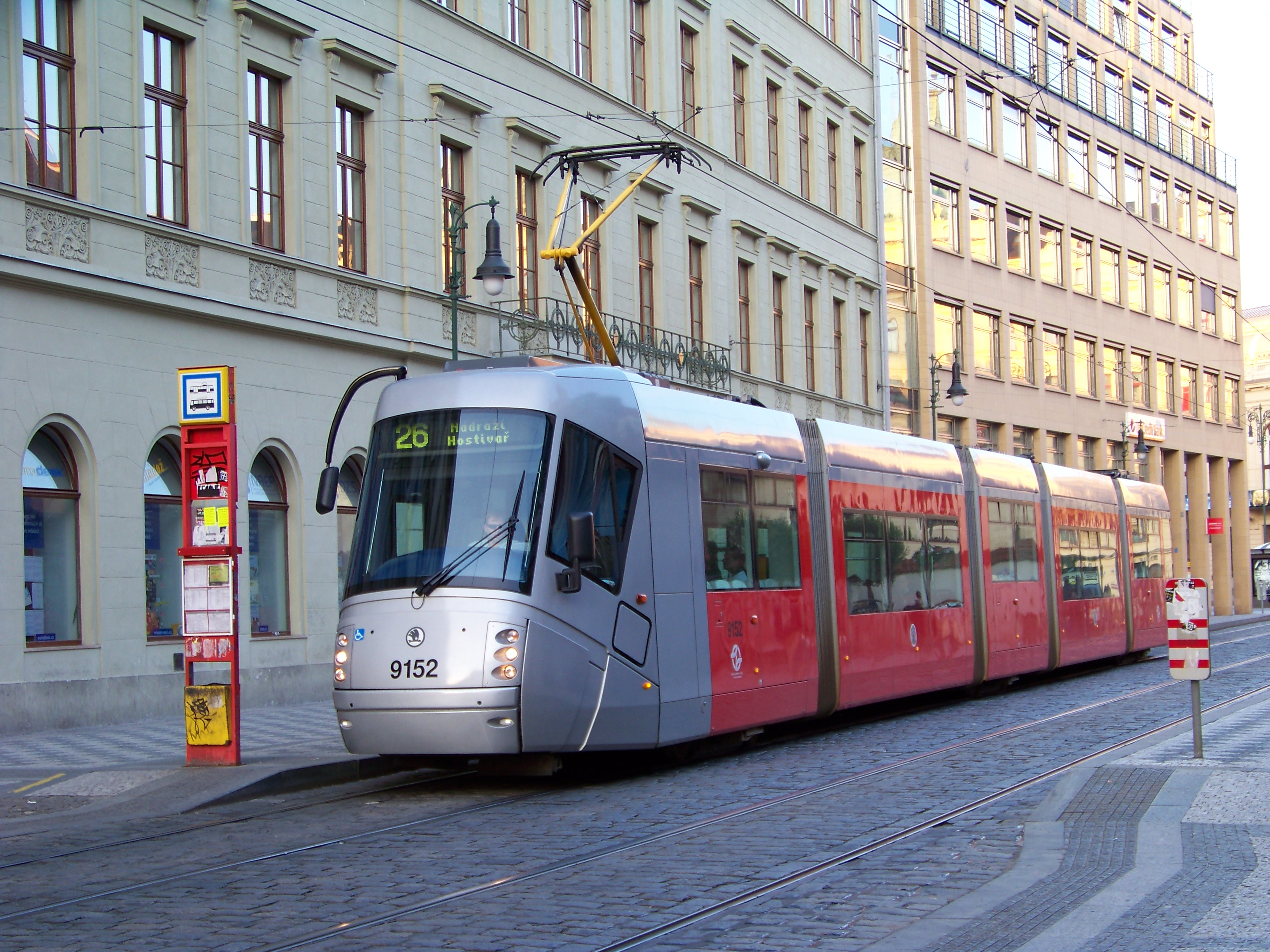 New Town, Prague, the Czech Republic. Na poříčí street, houses and a tram.